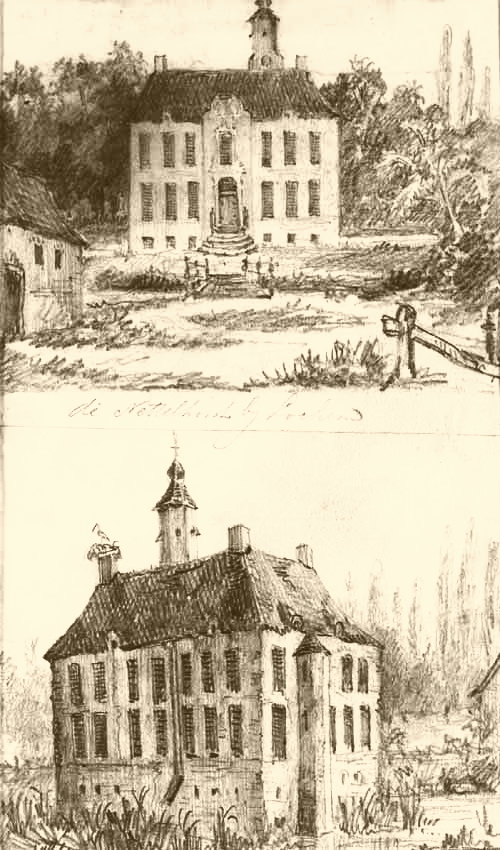 Castle Nettelhorst at Lochem, ca. 1870